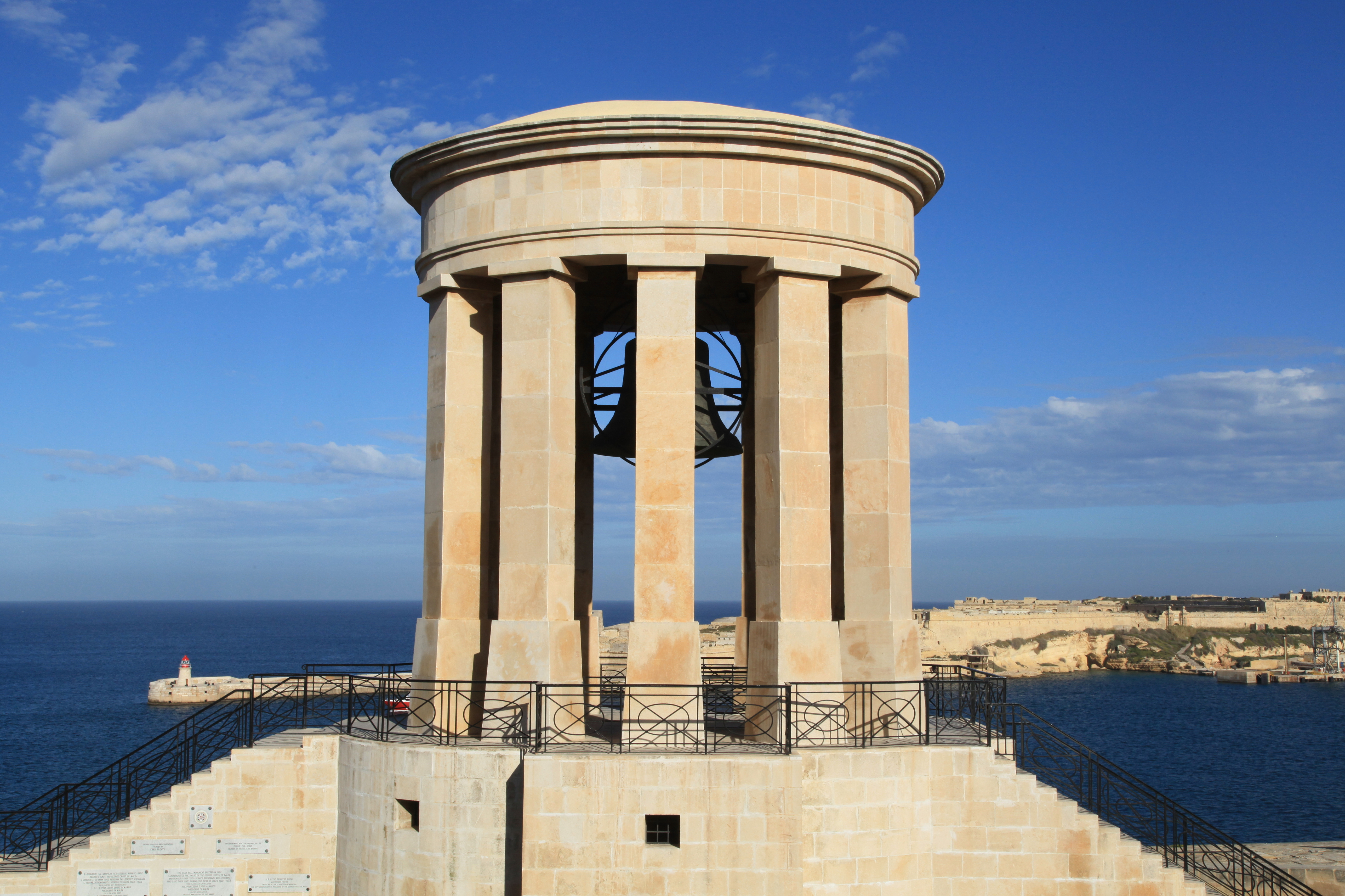 View from the Lower Barrakka Gardens to the Siege Bell War memorial, Xatt il-Barriera in Valletta, Malta